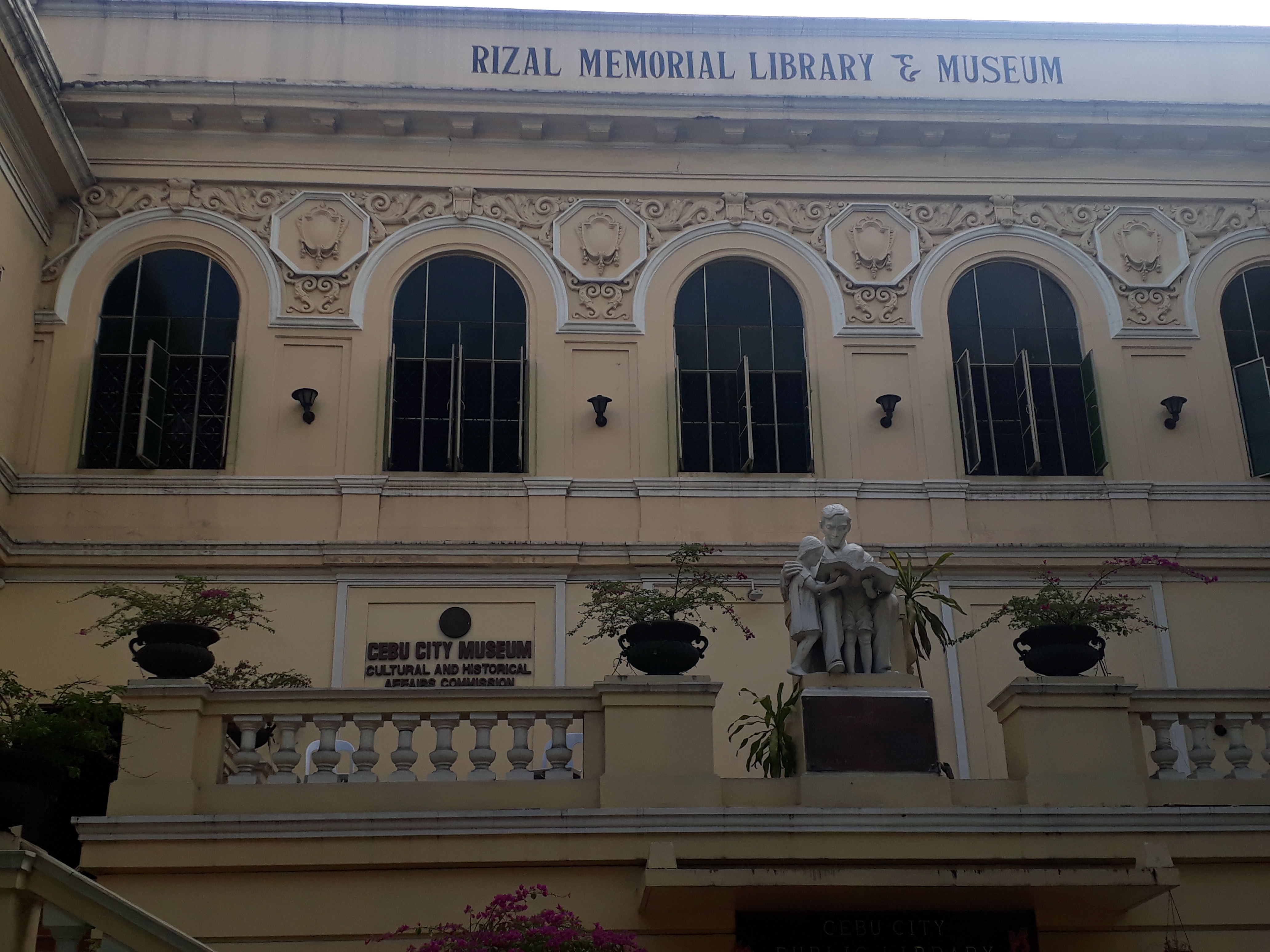 Pre-World War II, neoclassical landmark and heritage site, Rizal Memorial Library and Museum located along Osmeña Boulevard, Cebu City, Cebu, Philippines